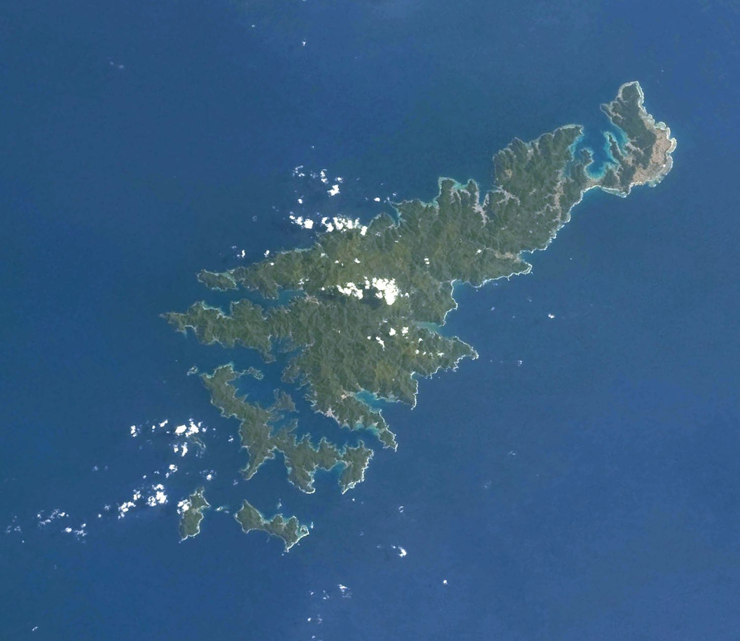 Amami Oshima Island, Kagoshima prefecture, Japan.